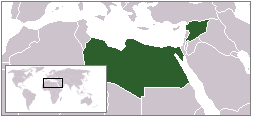 Map of The Federation of Arab Republics, 1972 to ca. 1977. For the flag, see Image:Flag_of_Egypt_1972.svg . This map has been uploaded by Electionworld from to enable the Wikimedia Atlas of the World . Original uploader to was Seamus215, known as Seamus215 at . Electionworld is not the creator of this map. Licensing information is below.